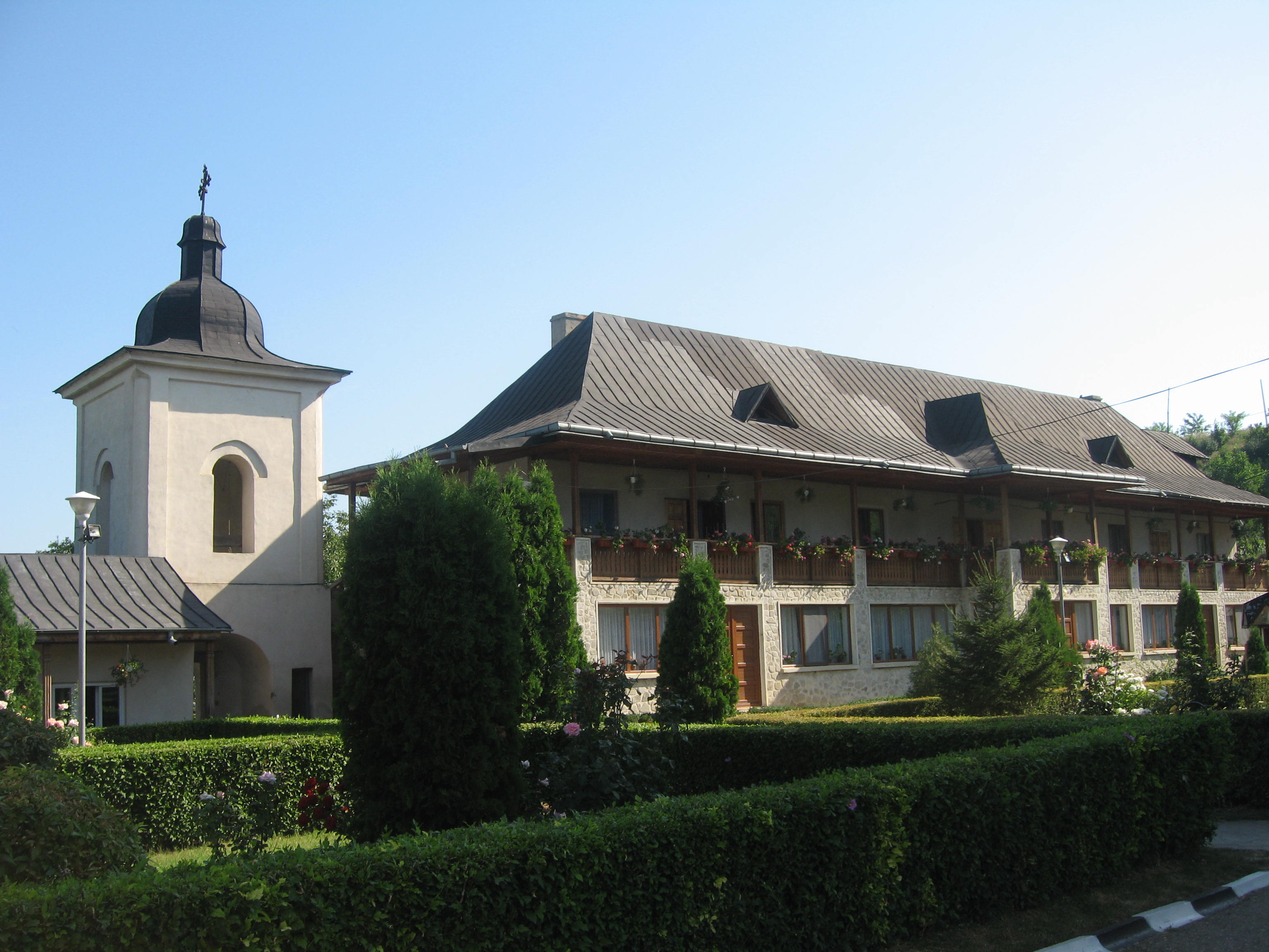 Turnul clopotniţă al Mănăstirii Hlincea